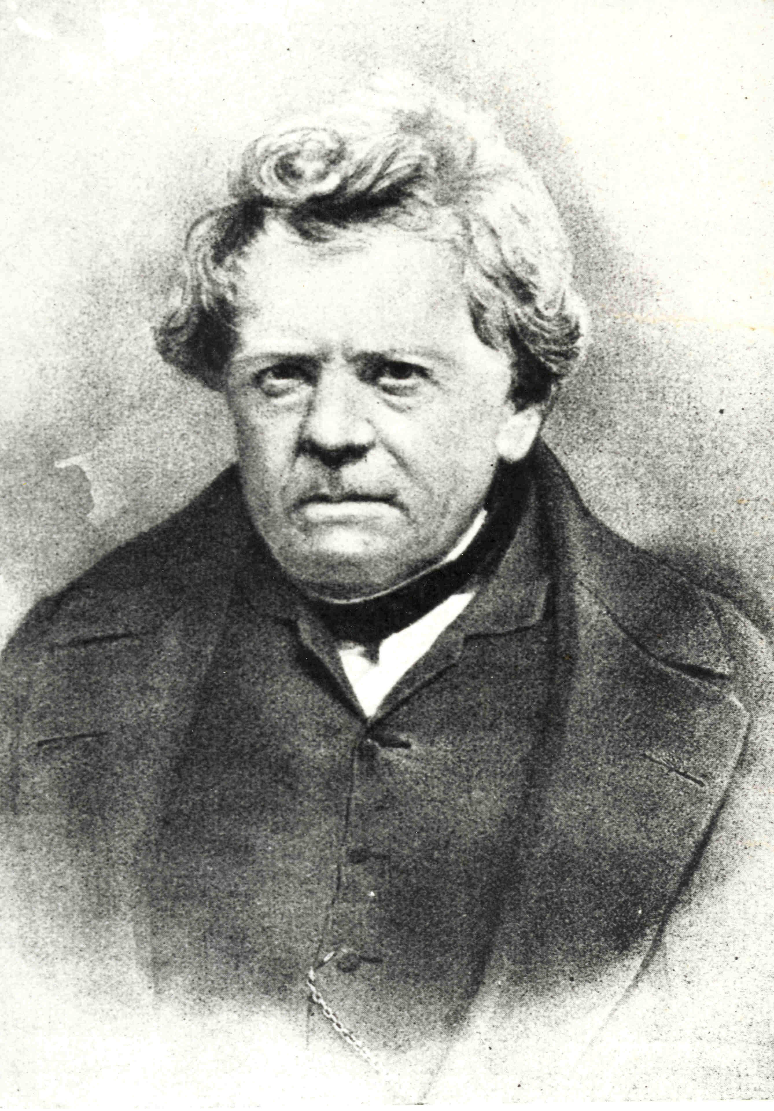 German physicists Georg Simon Ohm